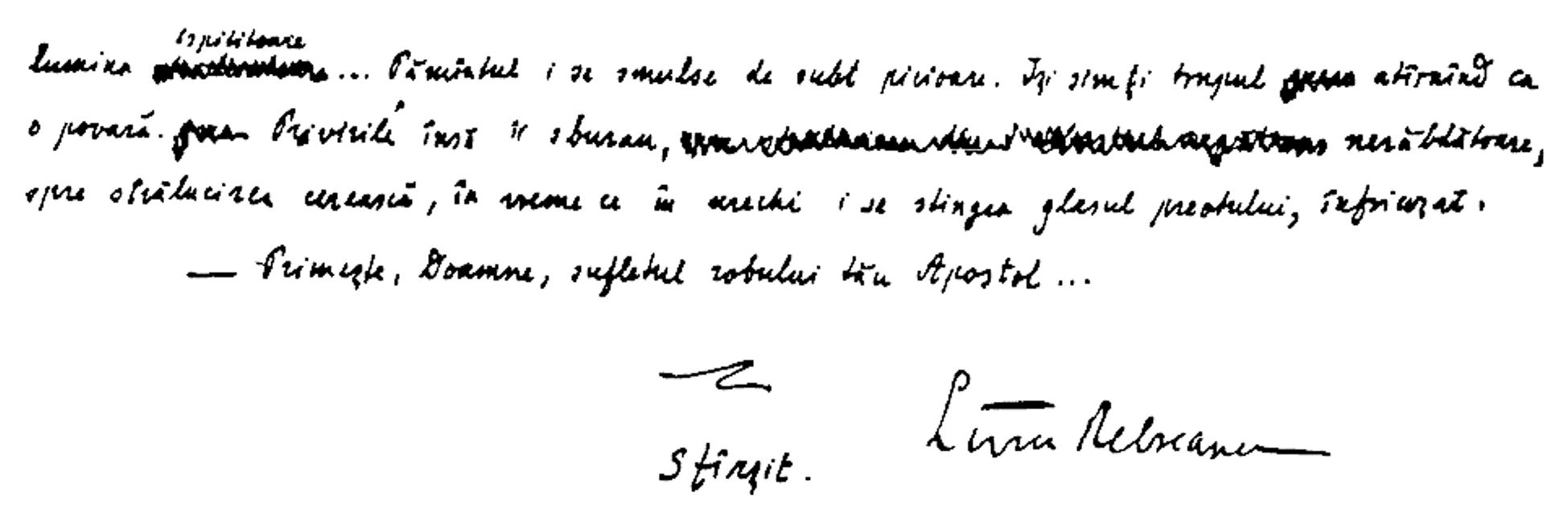 The closing lines of the novel Forest of the Hanged, by Romanian author Liviu Rebreanu: the protagonist, Apostol Bologa, at the gallows, where his confessor recites Primește, Doamne, sufletul robului tău Apostol… ("Receive, o Lord, the soul of Thy servant Apostol"). In Rebreanu's own handwriting, with signature.